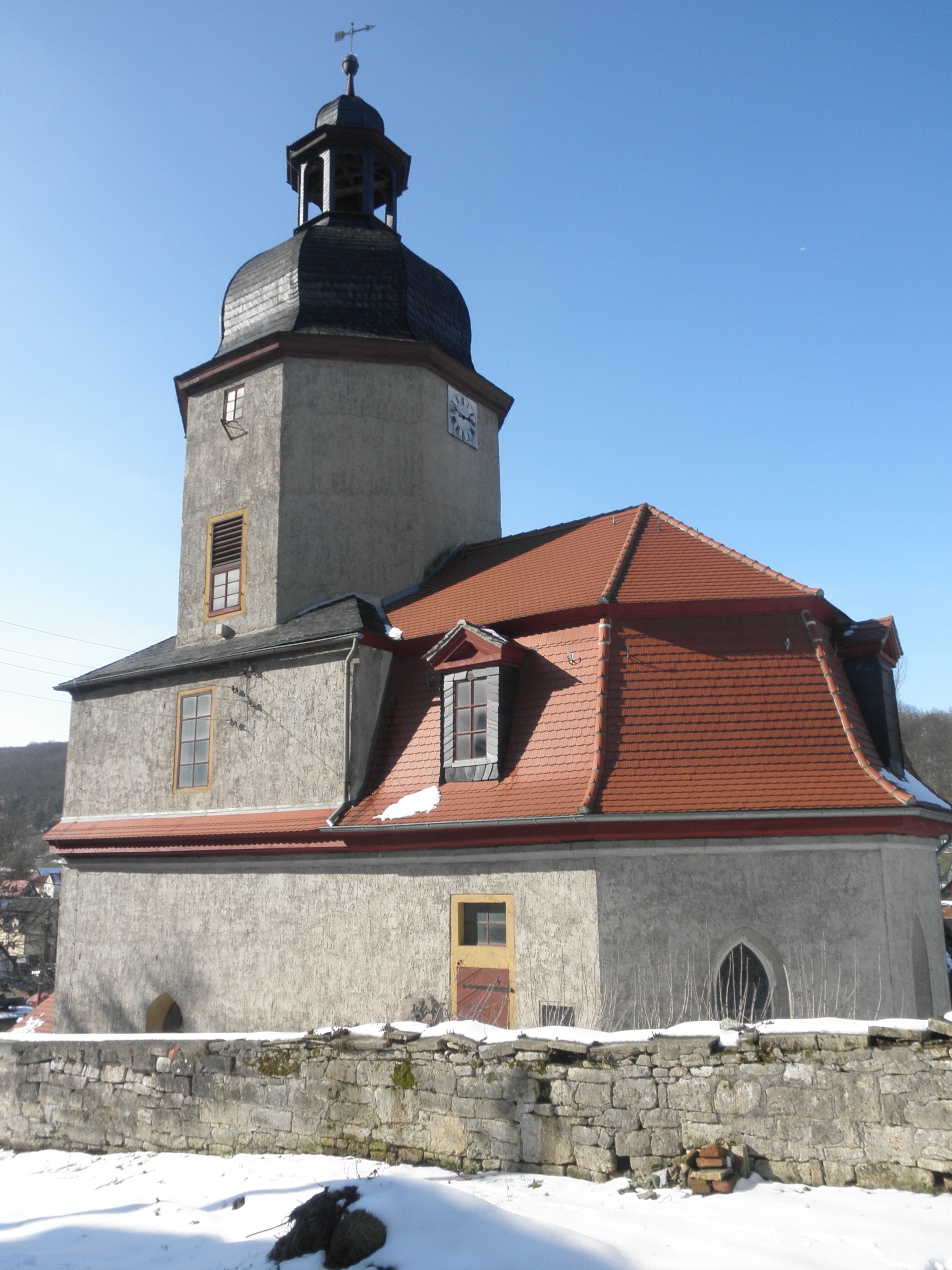 Church in Neuengönna in Thuringia